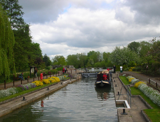 Iffley Lock. A great little spot and subject of Geocache GCG11N 'Get Your School Compasses Out'